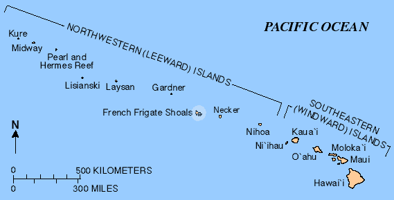 locates French Frigate Shoals